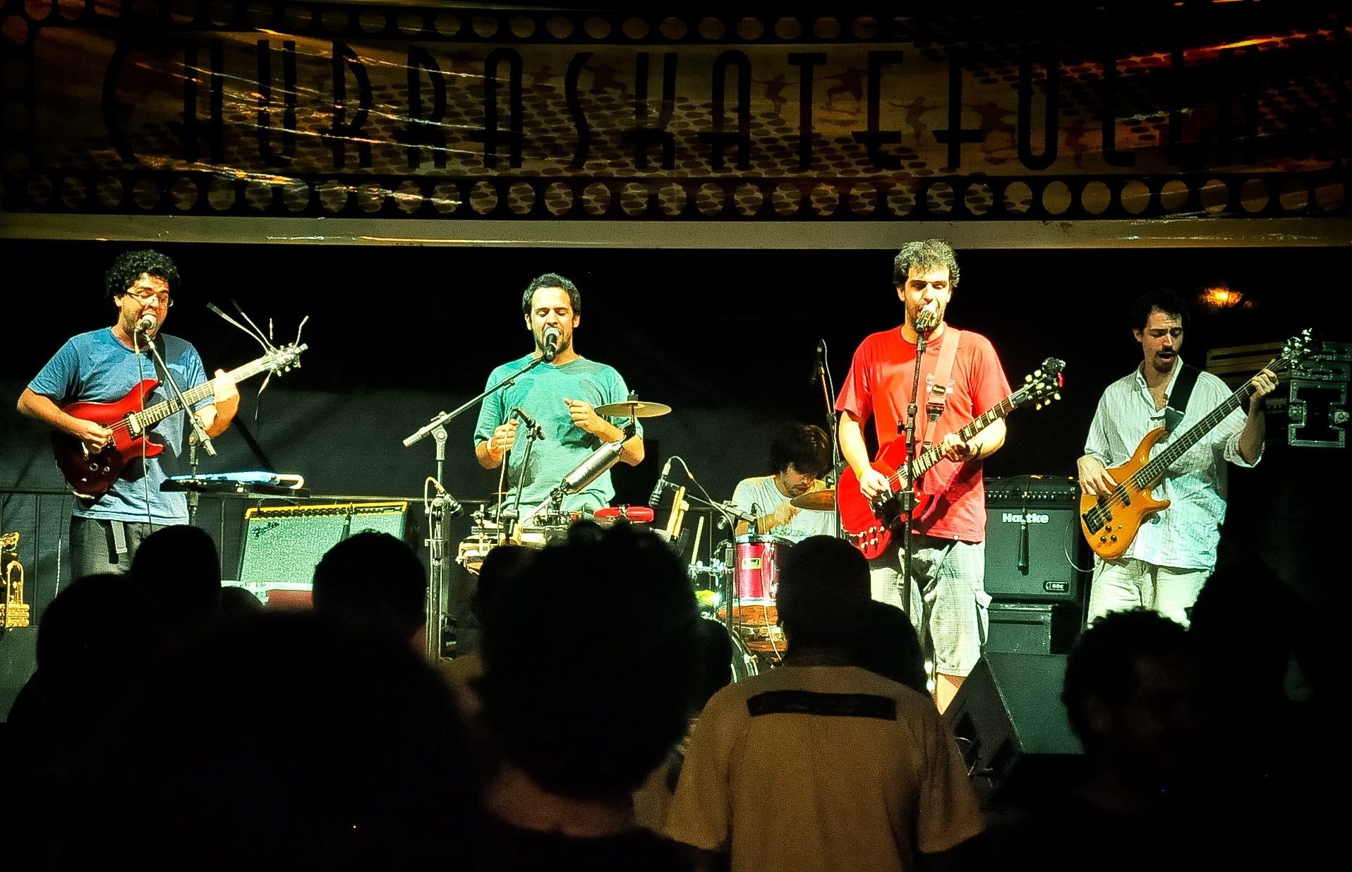 El Efecto live at the 2012 Festival Recontagem in Contagem, Minas Gerais, Brazil. From left to right: Bruno Danton, Tomás Rosati, Gustavo Loureiro, Pablo Barroso and Eduardo Baker. The original image has been altered so the band is more centralized in the picture.